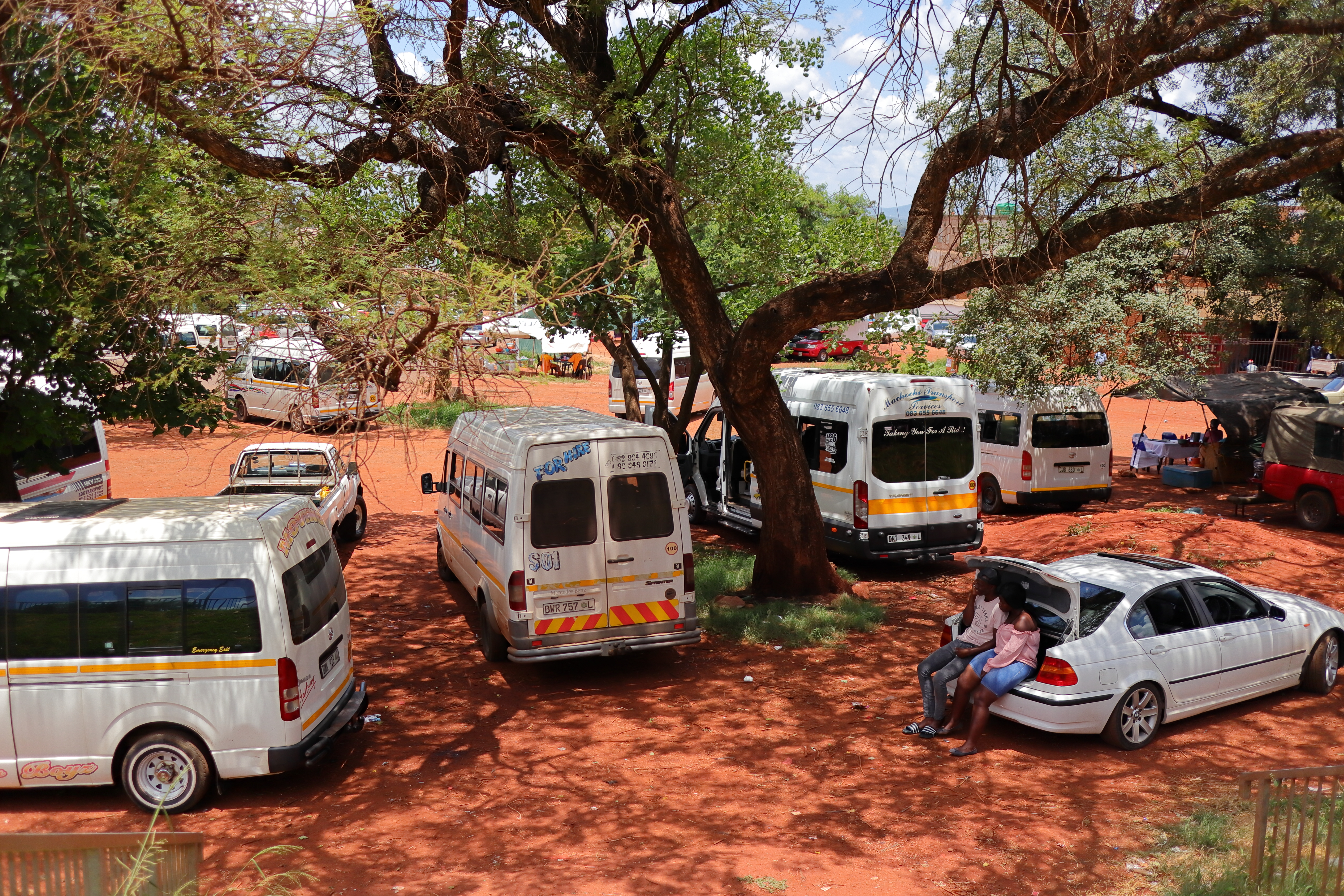 One of the numerous minibus taxi stations throughout South Africa. These typical Toyota 'Ses’Fikile' minibus taxis, seen throughout the country, are essential to South African commuters, allowing 75% of all transport to work, schools and universities. This is an image with the theme "Africa on the Move or Transport" from: South Africa